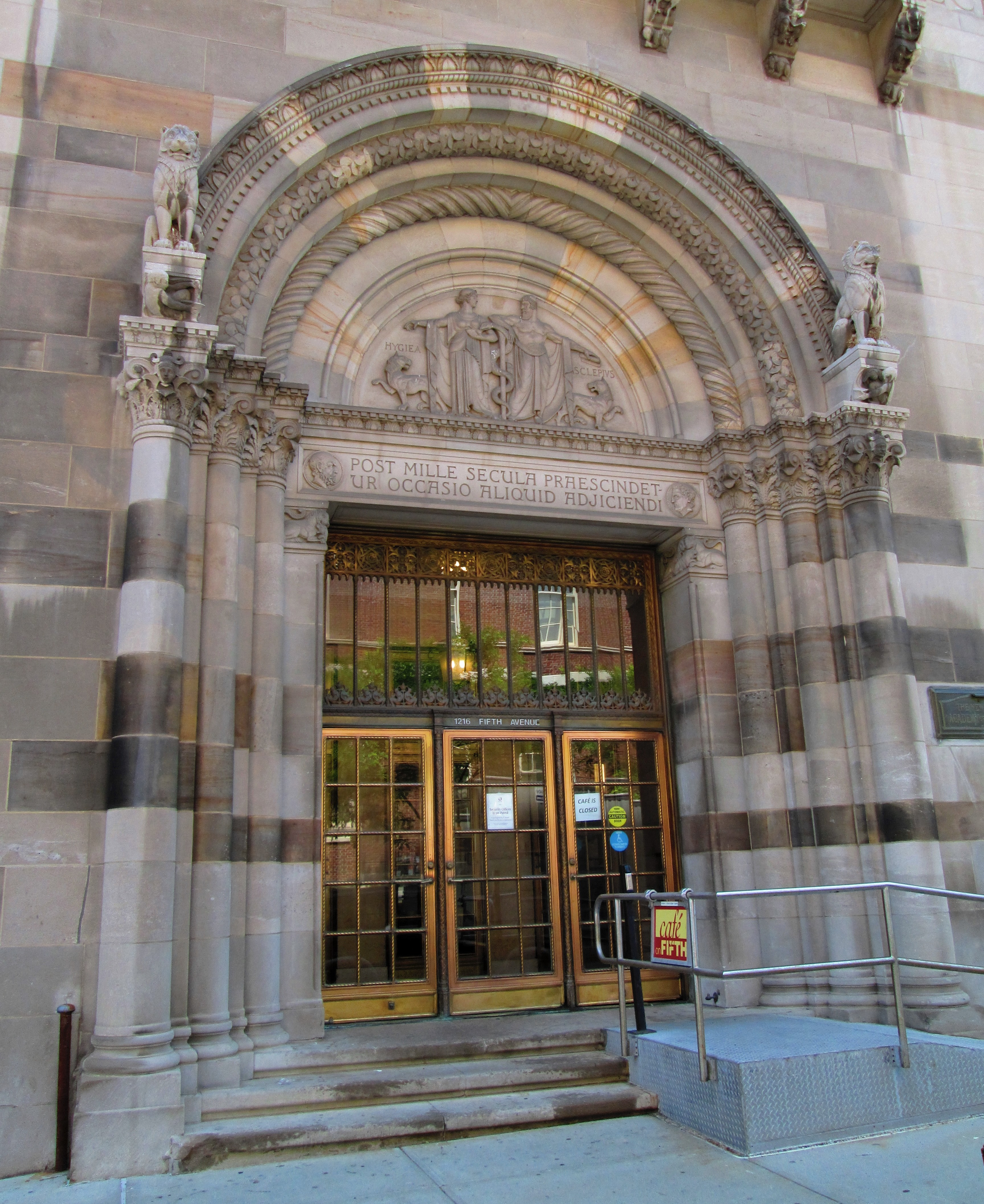 The New York Academy of Medicine was founded in 1847 a voice for the medical profession in medical practice and public health reform. It established the Metropolitan Board of Health, the first modern municipal public health authority in the United States. In 1926, the Academy moved to its current location, a new building designed in an eclectic style by York & Sawyer at 2 East 103rd Street at the corner of Fifth Avenue, across from Central Park in the East Harlem neighborhood of Manhattan, New York City. The Academy Library is one of the three largest medical collections in the United States and is open to general public. (Source: AIA Guide to NYC (5th ed.))